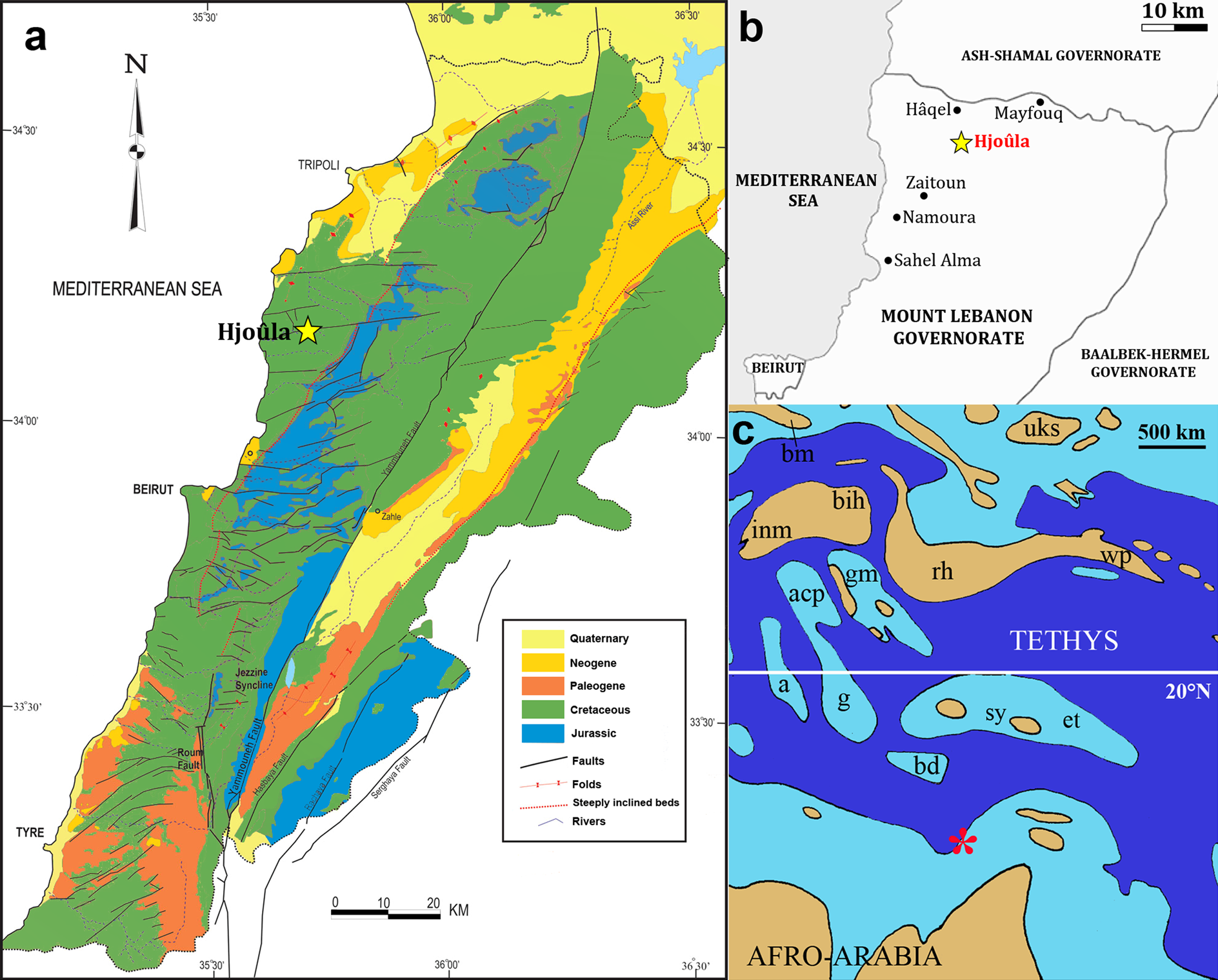 Geographical location where the new pterosaur, Mimodactylus libanensis gen. et sp. nov., wascollected. (a) Geological map of Lebanon (adapted from Dubertret14). (b) Detail showing the location ofthe most important fossil Lagerstätten of Lebanon (modified from Dalla Vecchia et al.65). (c) Position ofLebanon in the broad carbonate platform that surrounded the northern part of the Afro-Arabian continentduring the late Cenomanian (modified from Philip and Floquet70). Abbreviations. a = Apulian CarbonatePlatform (southern Italy); acp = Adriatic Carbonate Platform (Italy, Slovenia, Croatia); bd = Bei Daglari(Turkey); bih = Bihor Massif (Romania); bm = Bohemian Massif (Central Europe); et = Eastern Taurus(Turkey); g = Gavrovo (Greece); gm = Golija Massif (Serbia); inm = Insubrian Massif (Alps); sy = Seydisehir(Turkey); uks = Ukrainian Shield (Ukraine). The yellow star indicated on each map the location of the HjoûlaLagerstätte(a,b), whilst the red asterisk Lebanon(c).